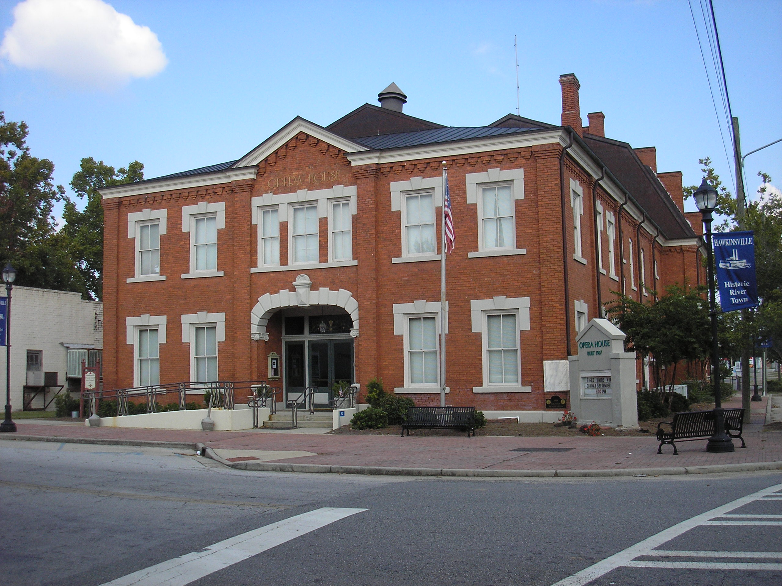 Hawkinsville City Hall-Auditorium